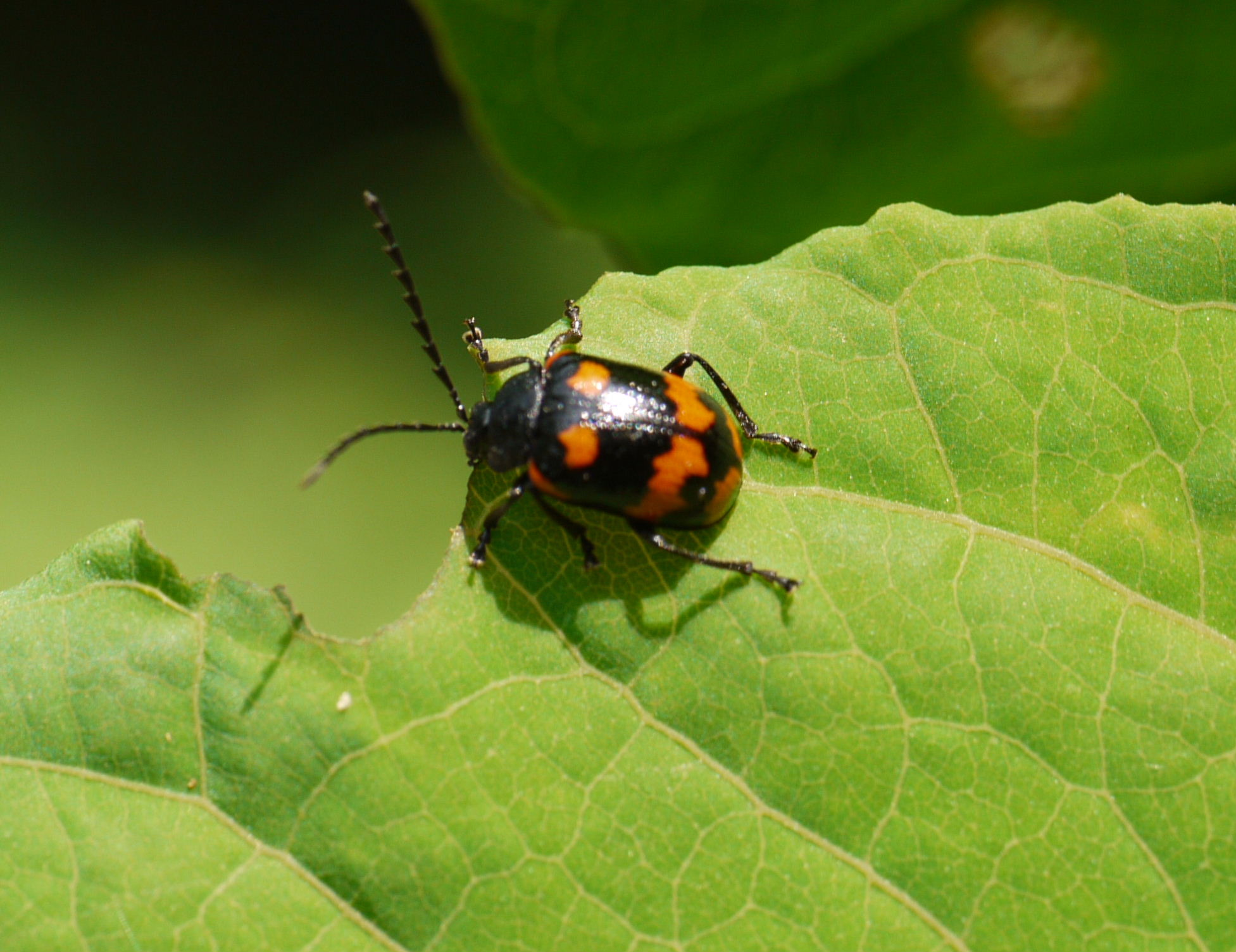 Gallerucida bifasciata(Chrysomelidae)